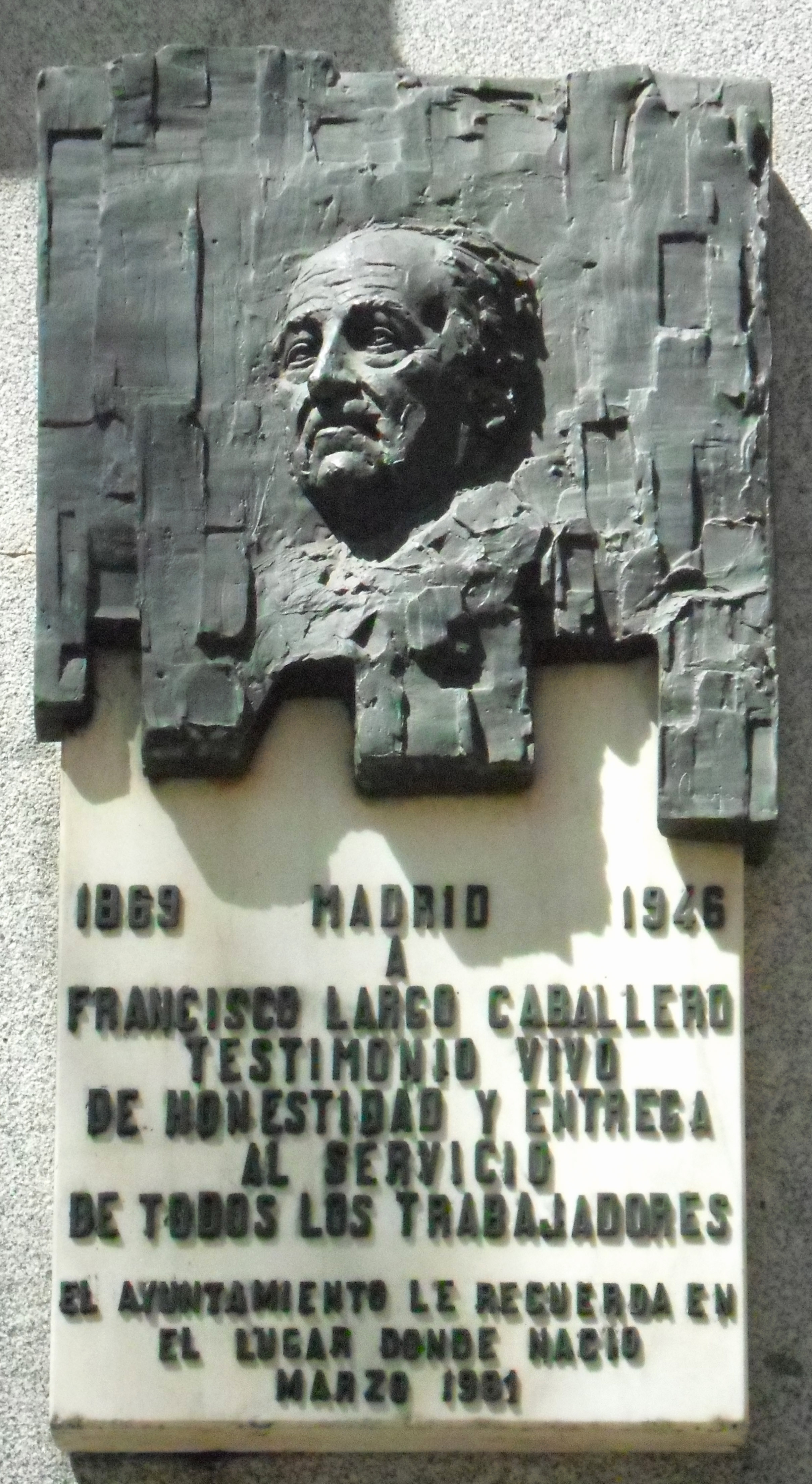 Plaque dedicated to Francisco Largo Caballero at the façade of Chamberí District Hall in Madrid (Spain). Unveiled on March 1981.